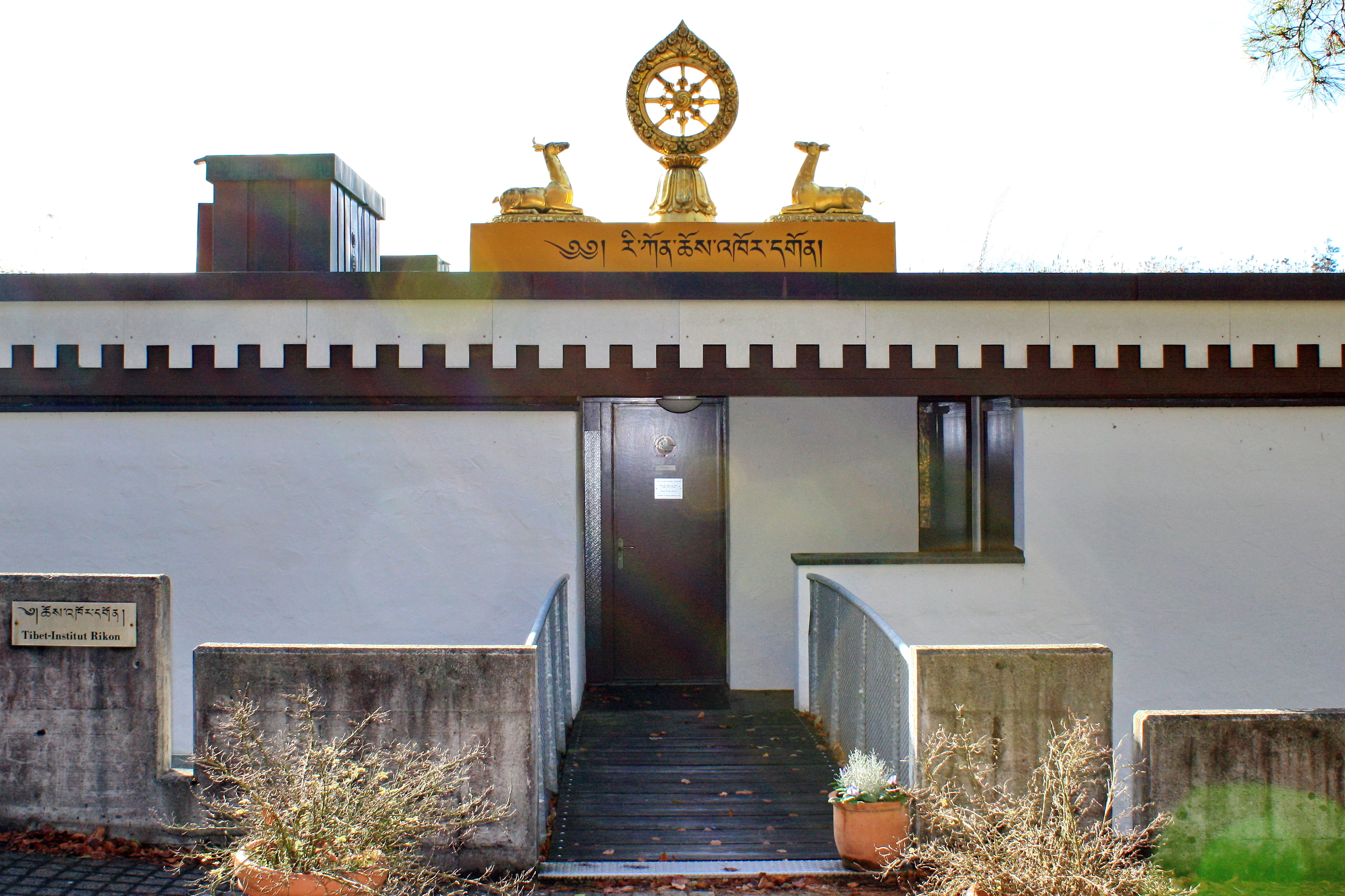 Tibetan monastery Tibet Institute Rikon in Zell-Rikon (Switzerland).